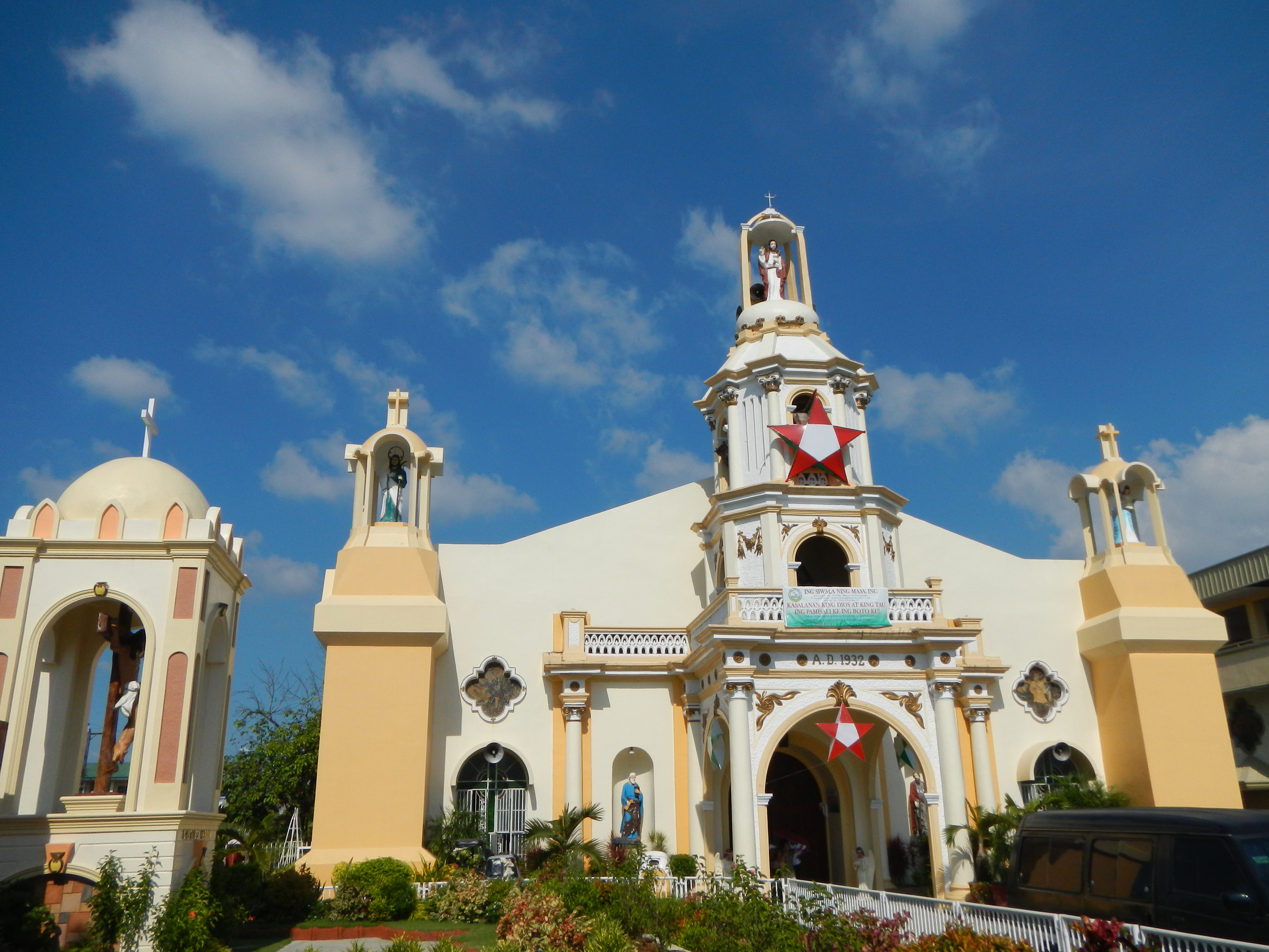 Masantol, Pampanga[1][2] St. Michael the Archangel Parish Church - Masantol, Pampanga[3]